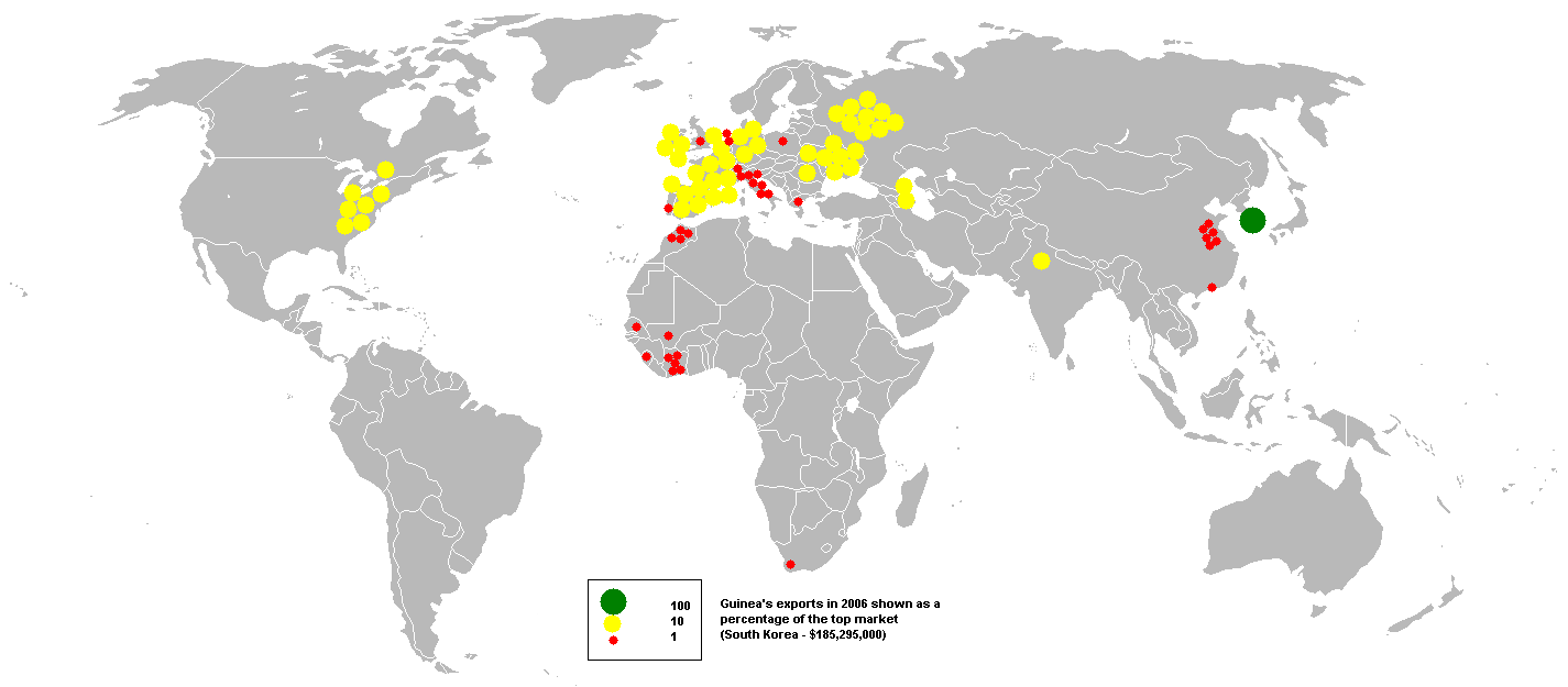 This bubble map shows the global distribution of Guinea's exports in 2006 as a percentage of the top market (South Korea - $185,295,000). This map is consistent with incomplete set of data too as long as the top producer is known. It resolves the accessibility issues faced by colour-coded maps that may not be properly rendered in old computer screens. Data was extracted on 22nd September 2007 from Based on :Image:BlankMap-World.png